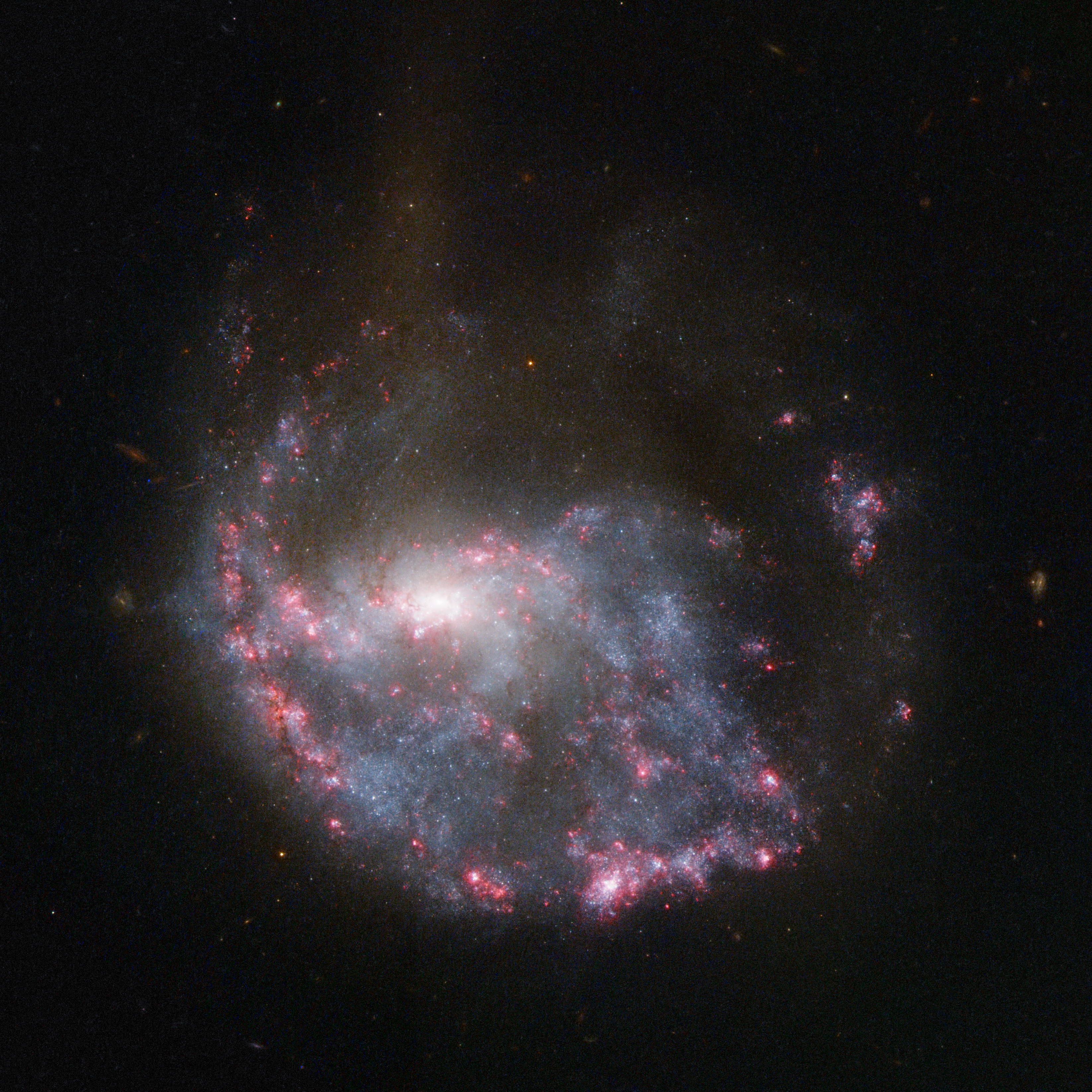 An almost complete circle of bright pink nebulae skirts around a spiral galaxy in this NASA/ESA Hubble Space Telescope image of NGC 922. The ring structure and the galaxy’s distorted spiral shape result from a smaller galaxy scoring a cosmic bullseye, hitting the centre of NGC 922 some 330 million years ago.